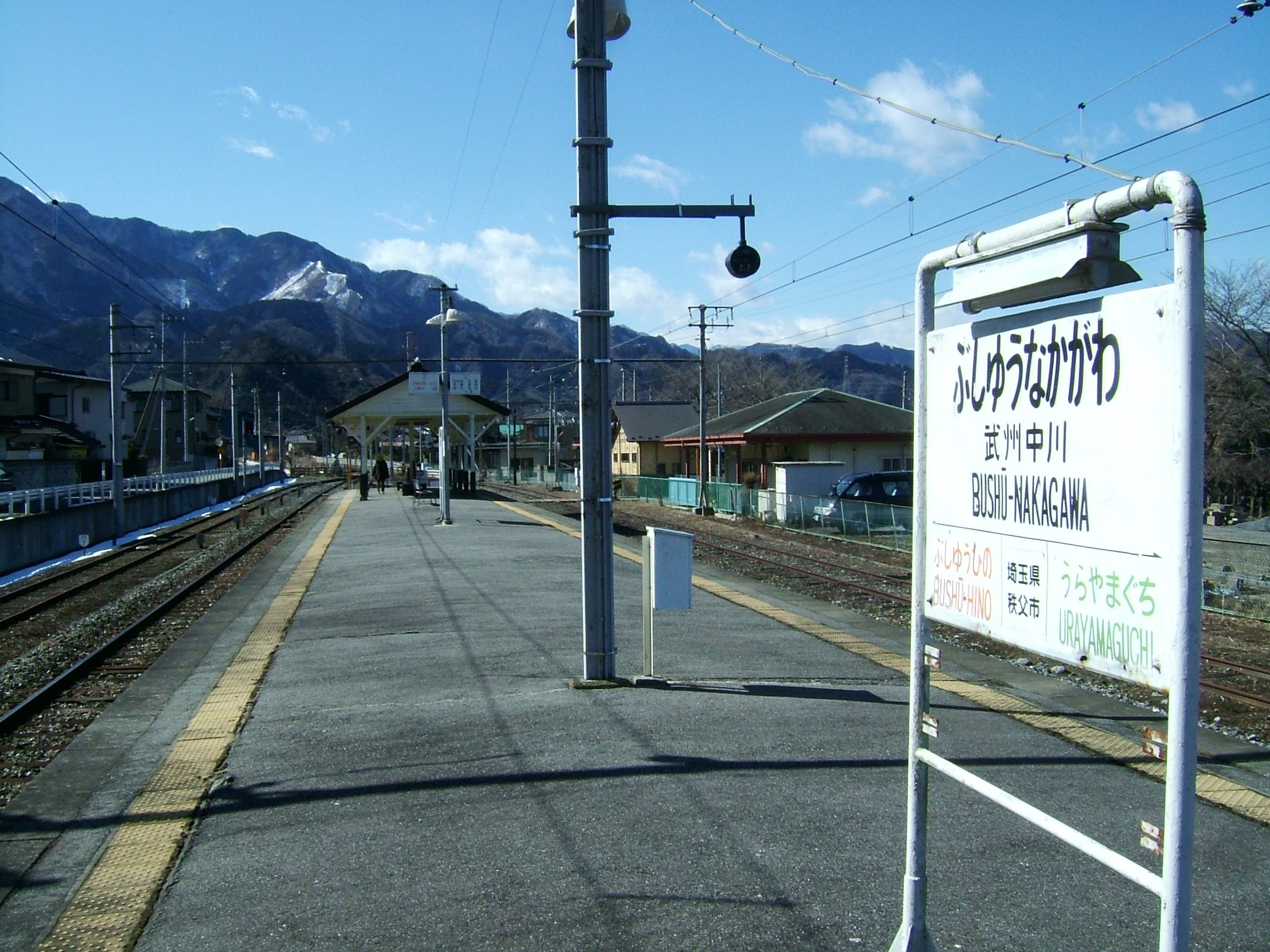 The platform at Bushū-Nakagawa Station on the Chichibu Main Line